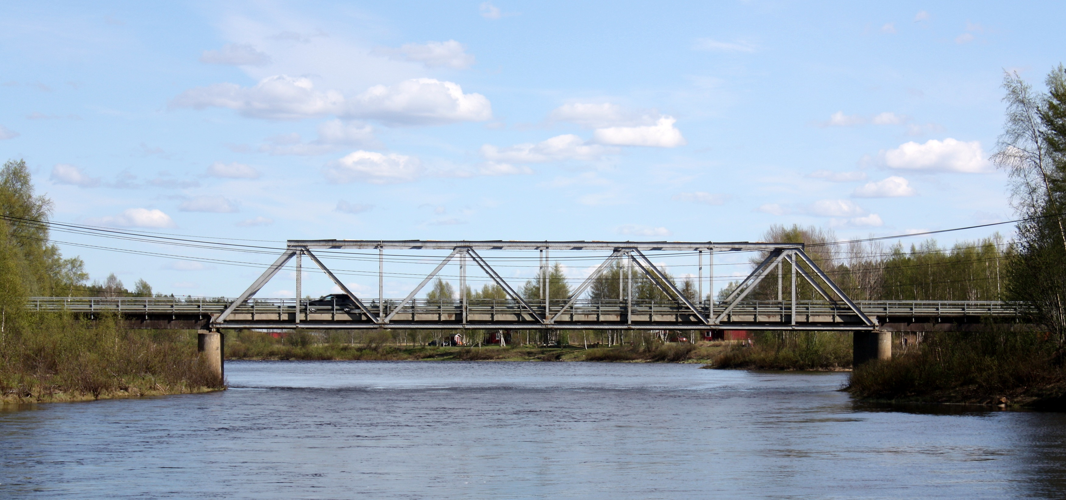 Autio Bridge over Kiiminki River in Alakylä village in Kiiminki.